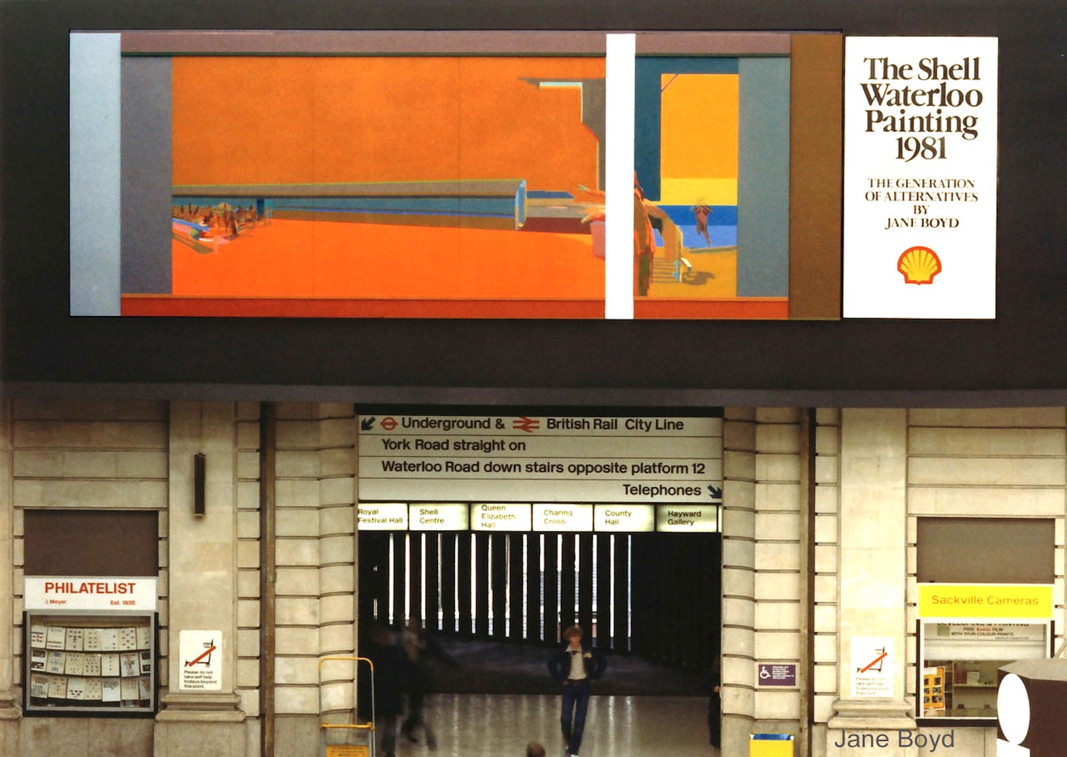 Photo of the Shell UK Commission 1981 in situ over the main concourse at Waterloo Mainline Station London – oil on canvas by Jane Boyd